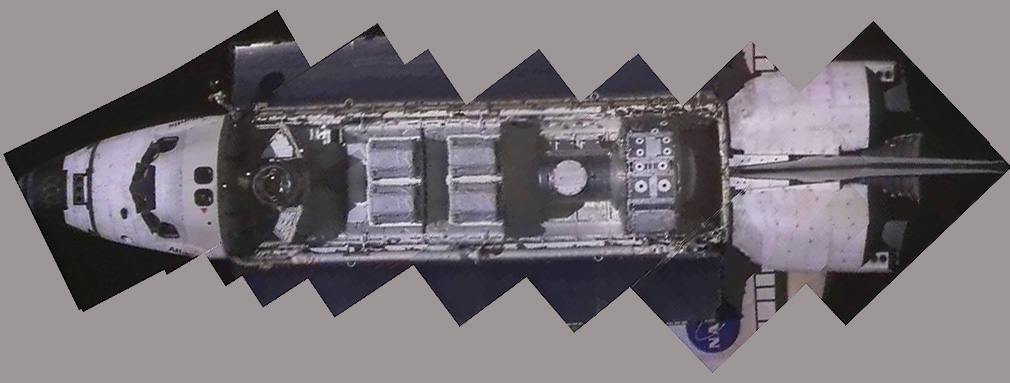 Reconstruction of the STS-104 Payload Bay view from an onboard video camera on ISS. No full payload bay view was taken during this mission.